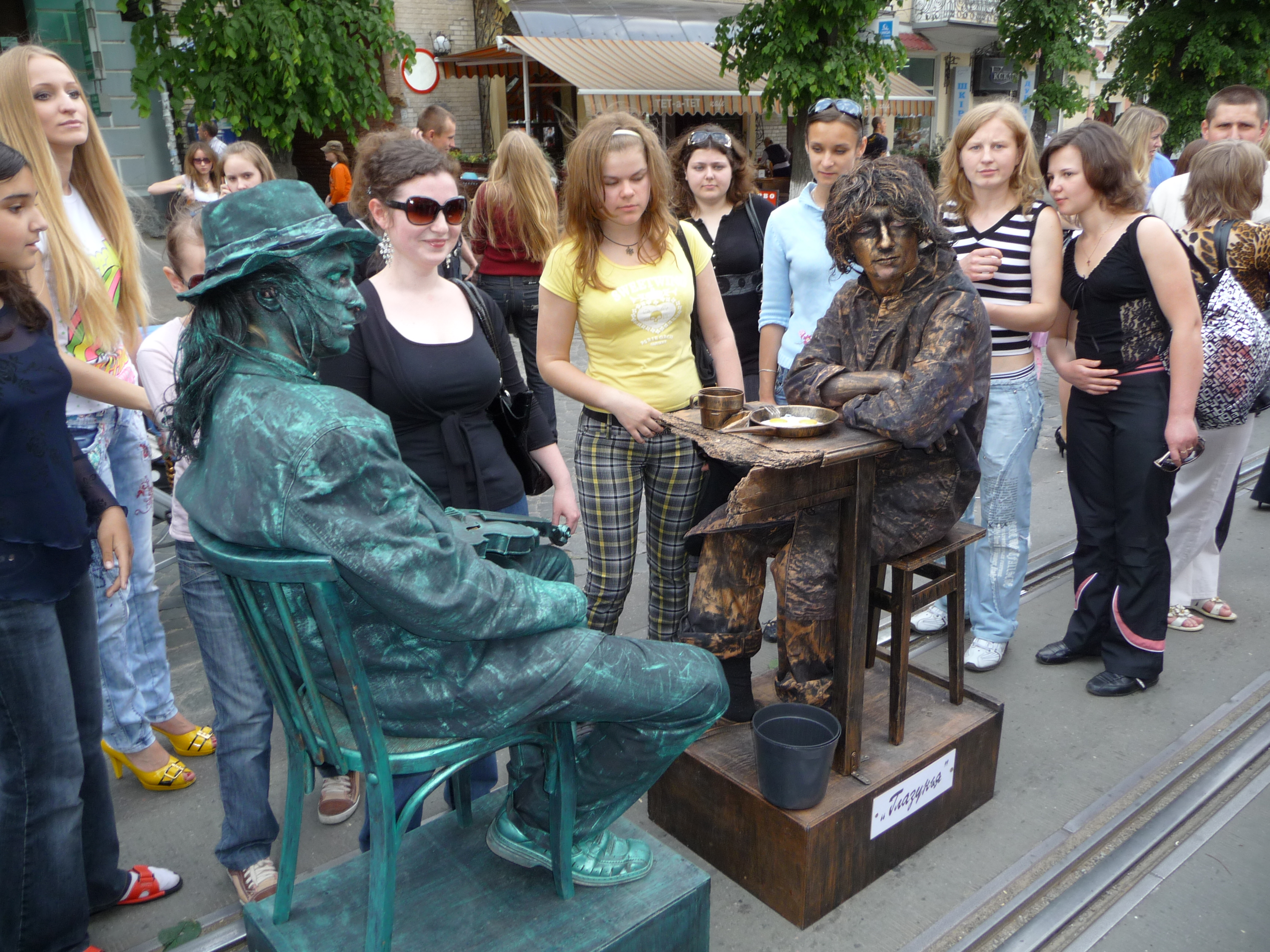 Living statues, performance art "Fried eggs". Europe Day celebration in Ukraine, Vinnitsa.